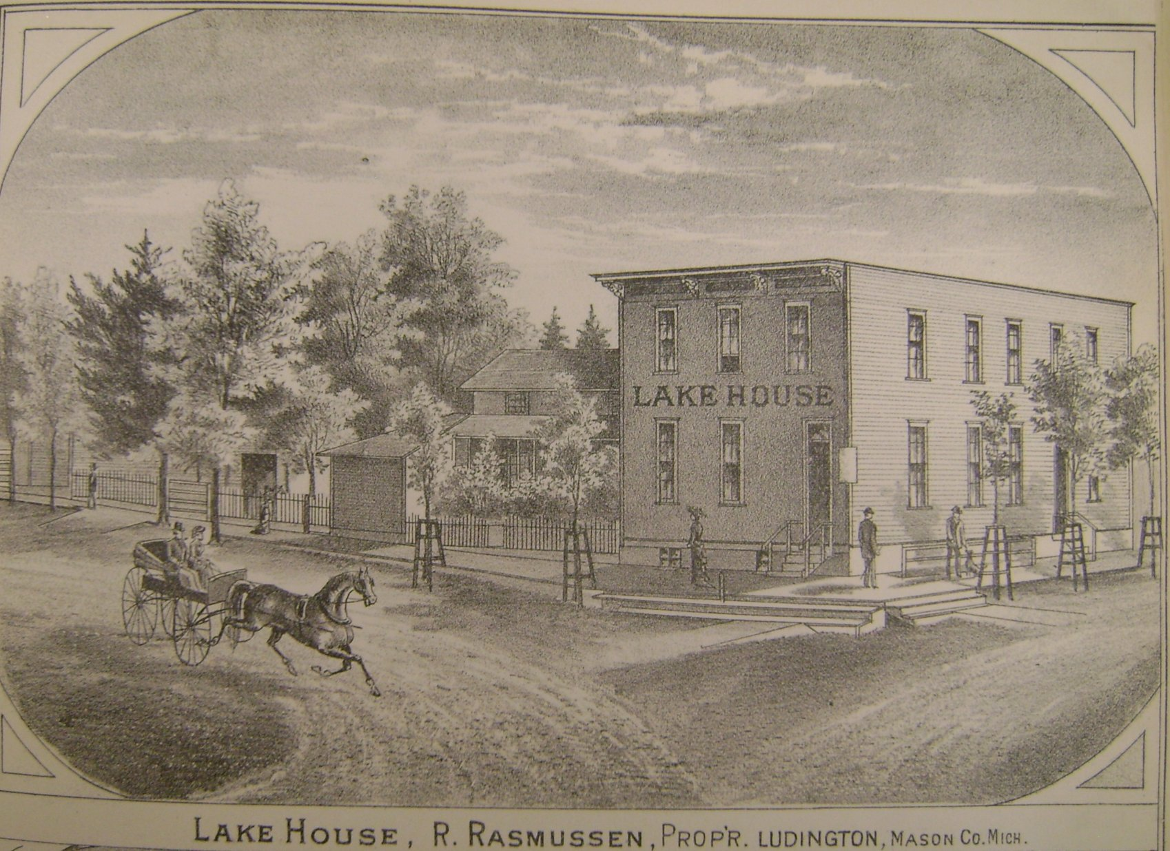 Lake House hotel 1877